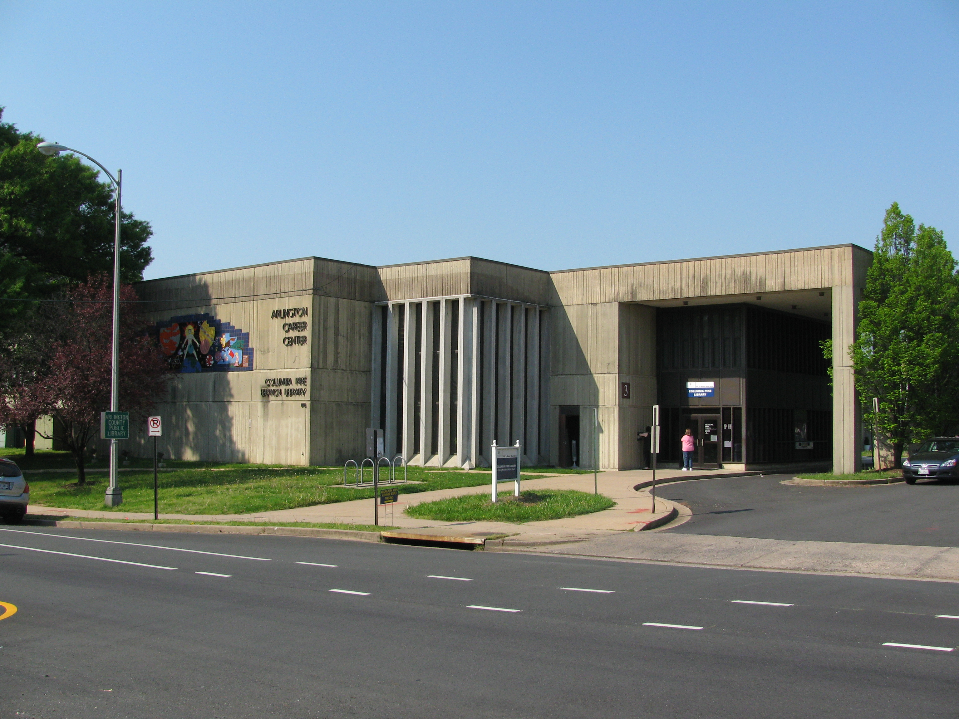 Columbia Pike Branch Library and Arlington Career Center in Arlington, Virginia